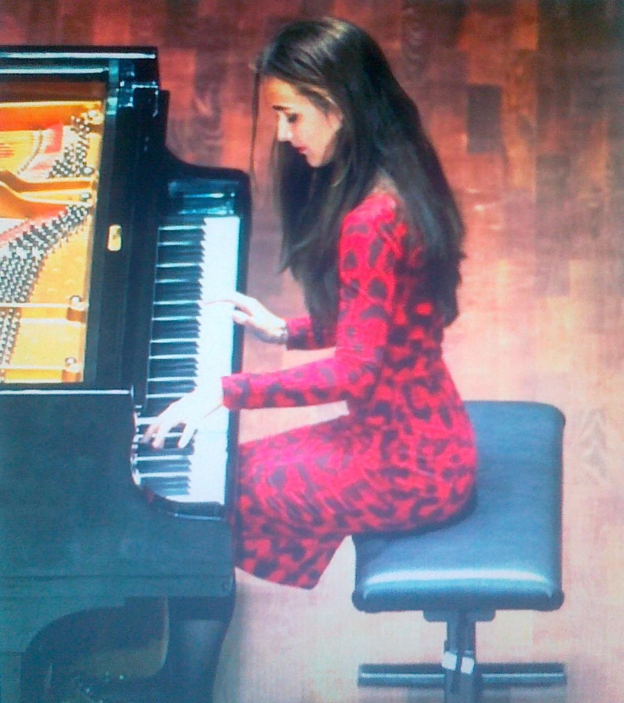 Pianist Ivett Gyöngyösi